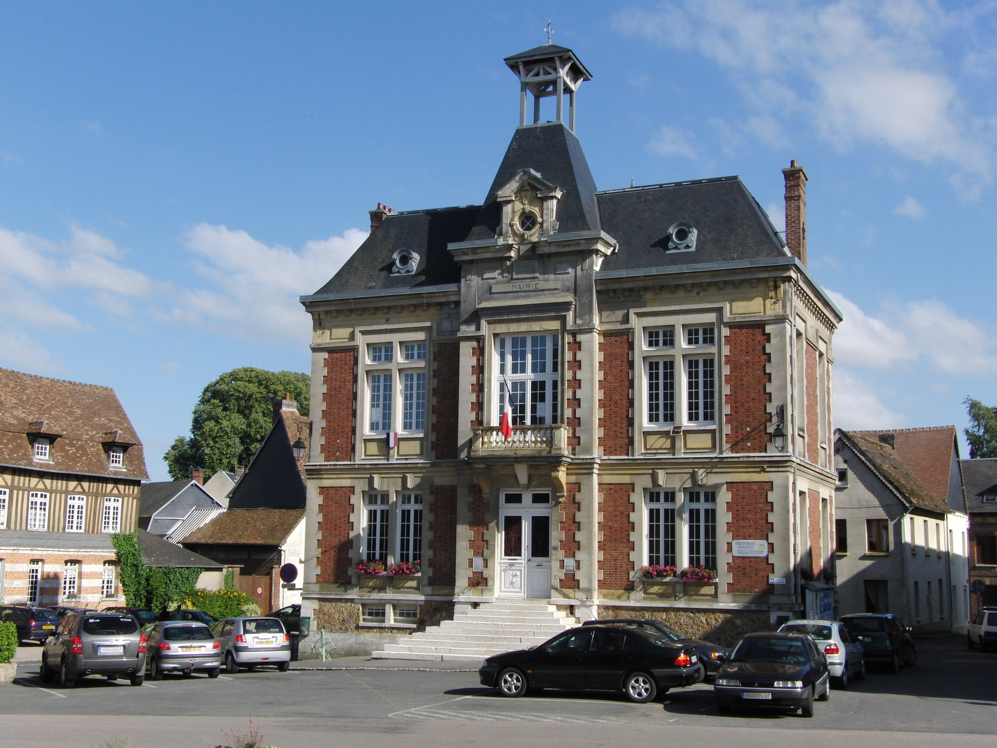 Ecouis City Hall